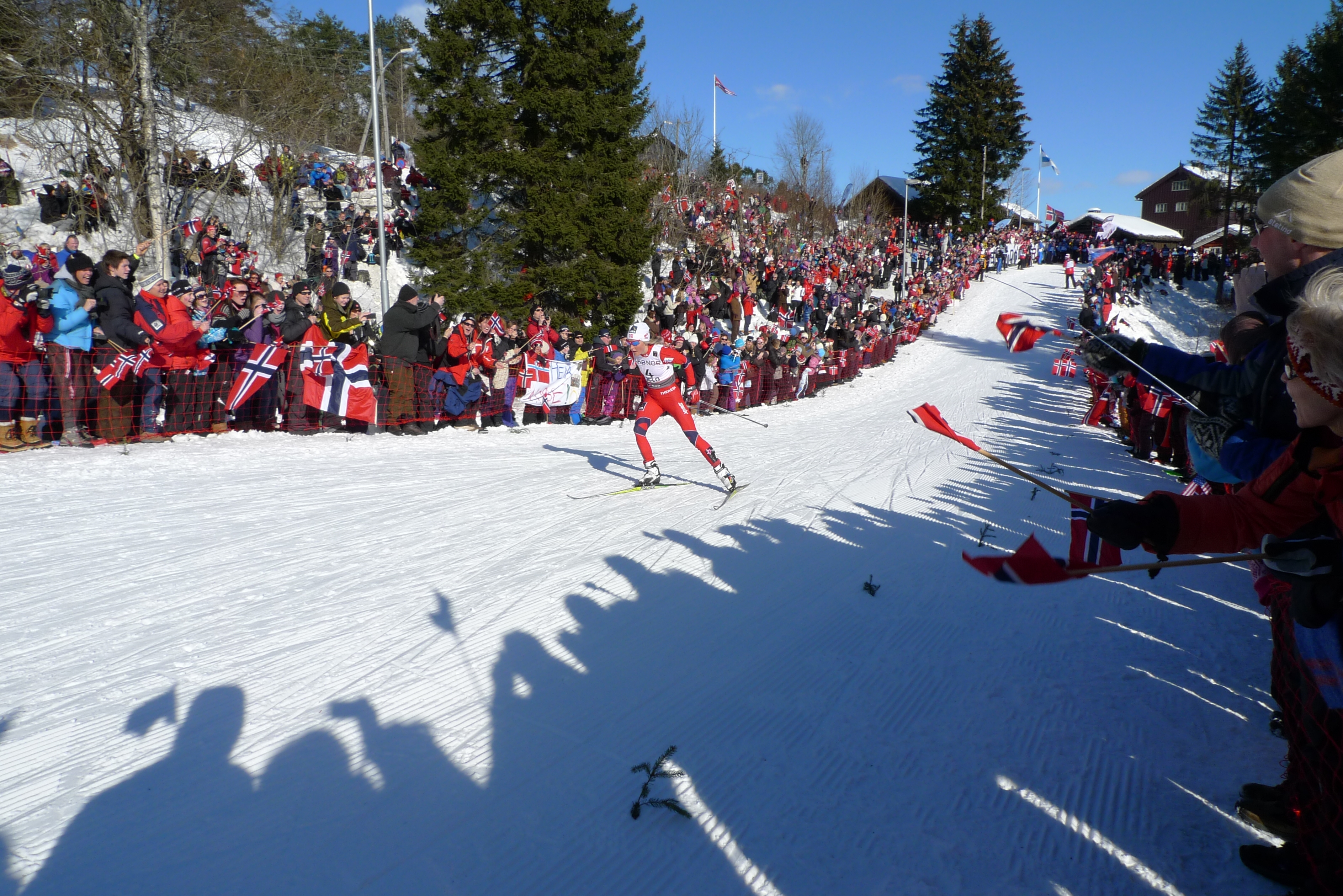 The Norwegian cross country skier Therese Johaug at the womens 30 km in the World Championship